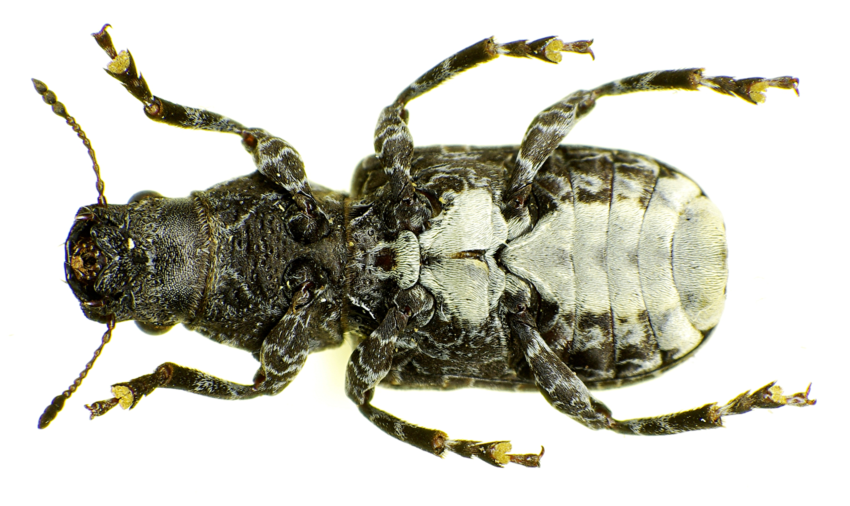 Platyrhinus resinosus, underside